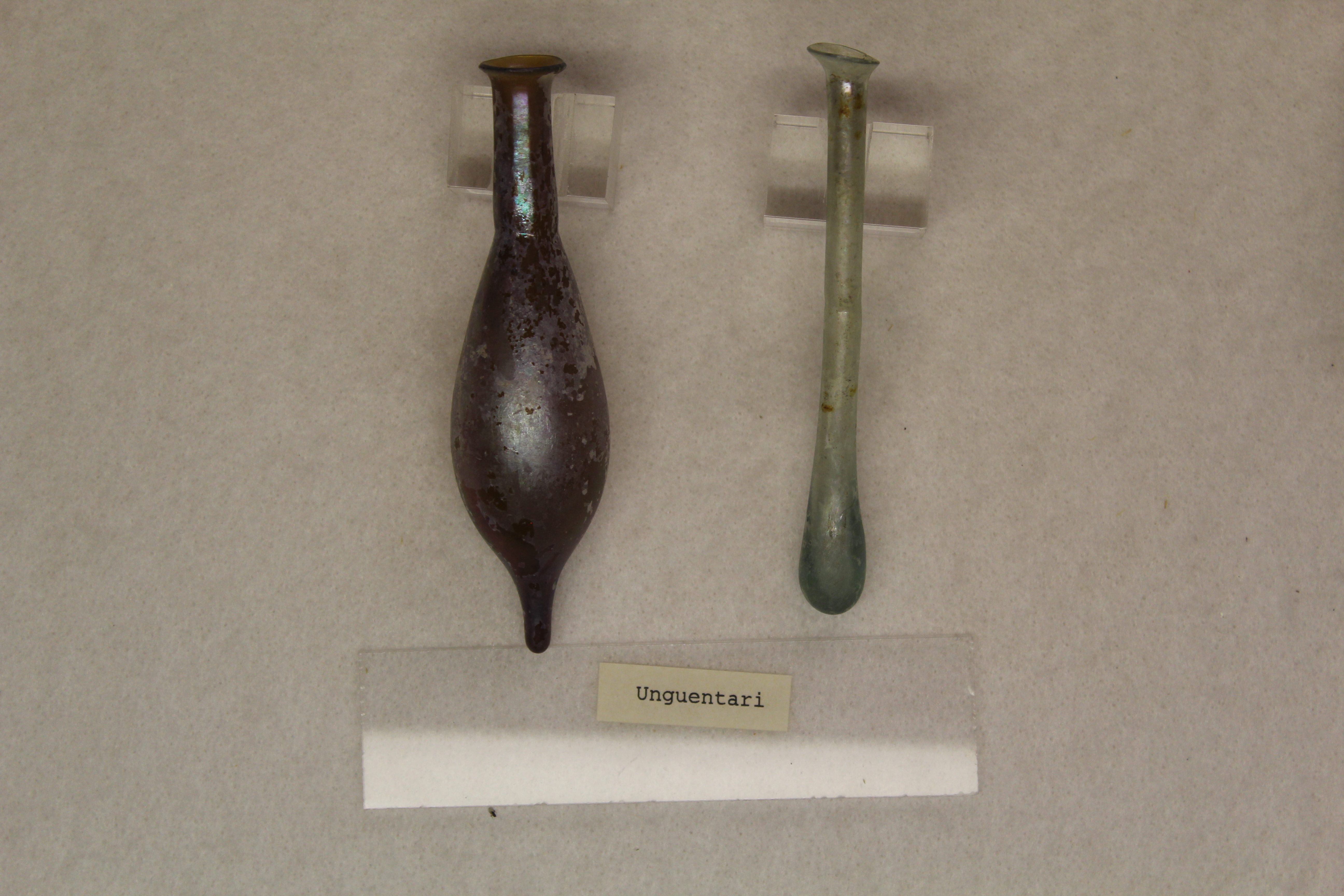 Roman perfume bottles